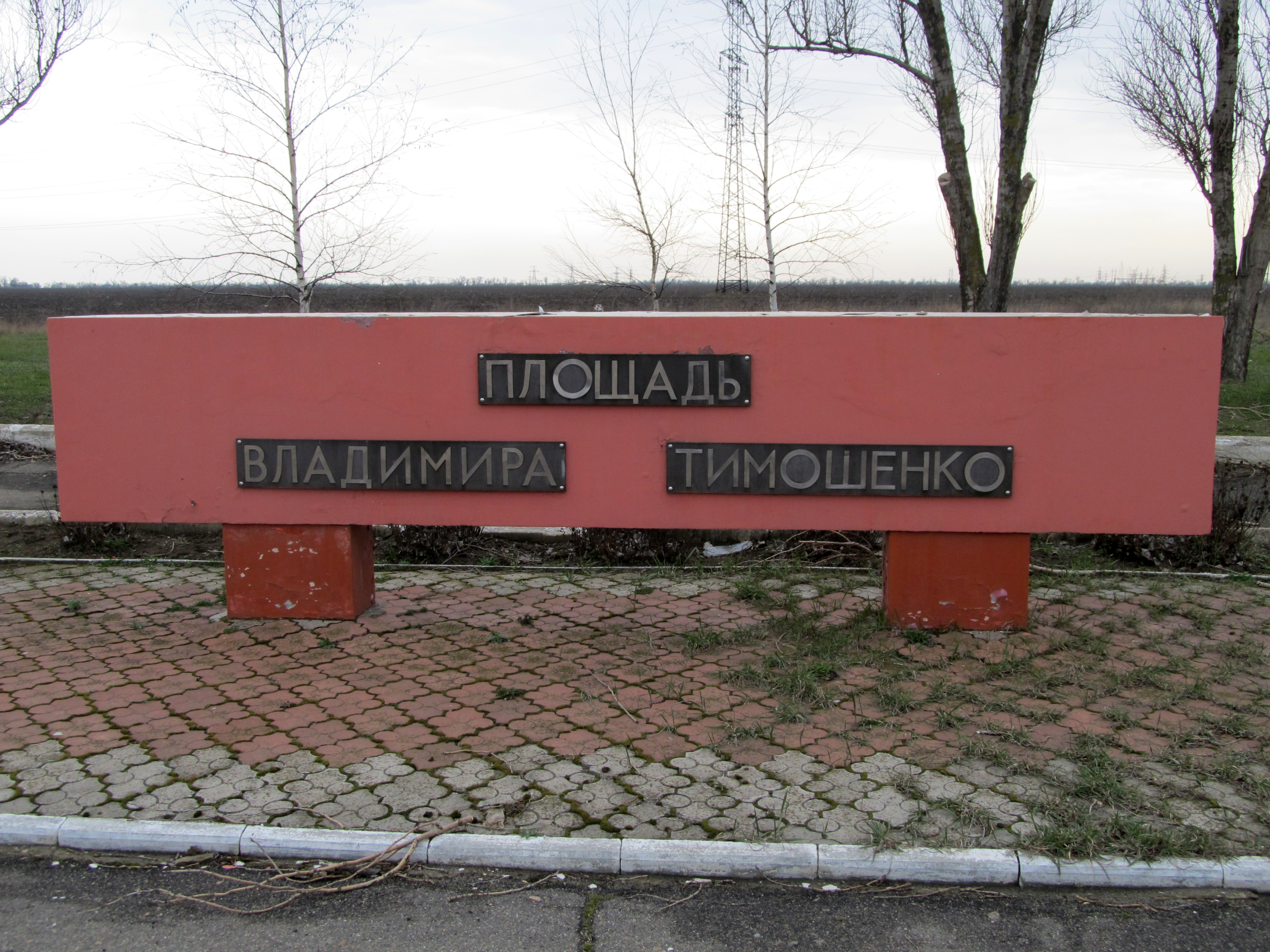 Timoshenko Square (Melitopol, Zaporizhia oblast, Ukraine).